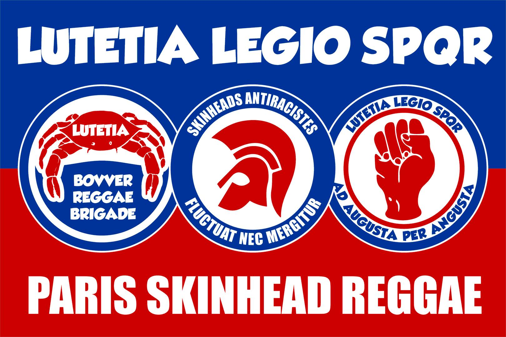 anti-racist skinheads, sharp